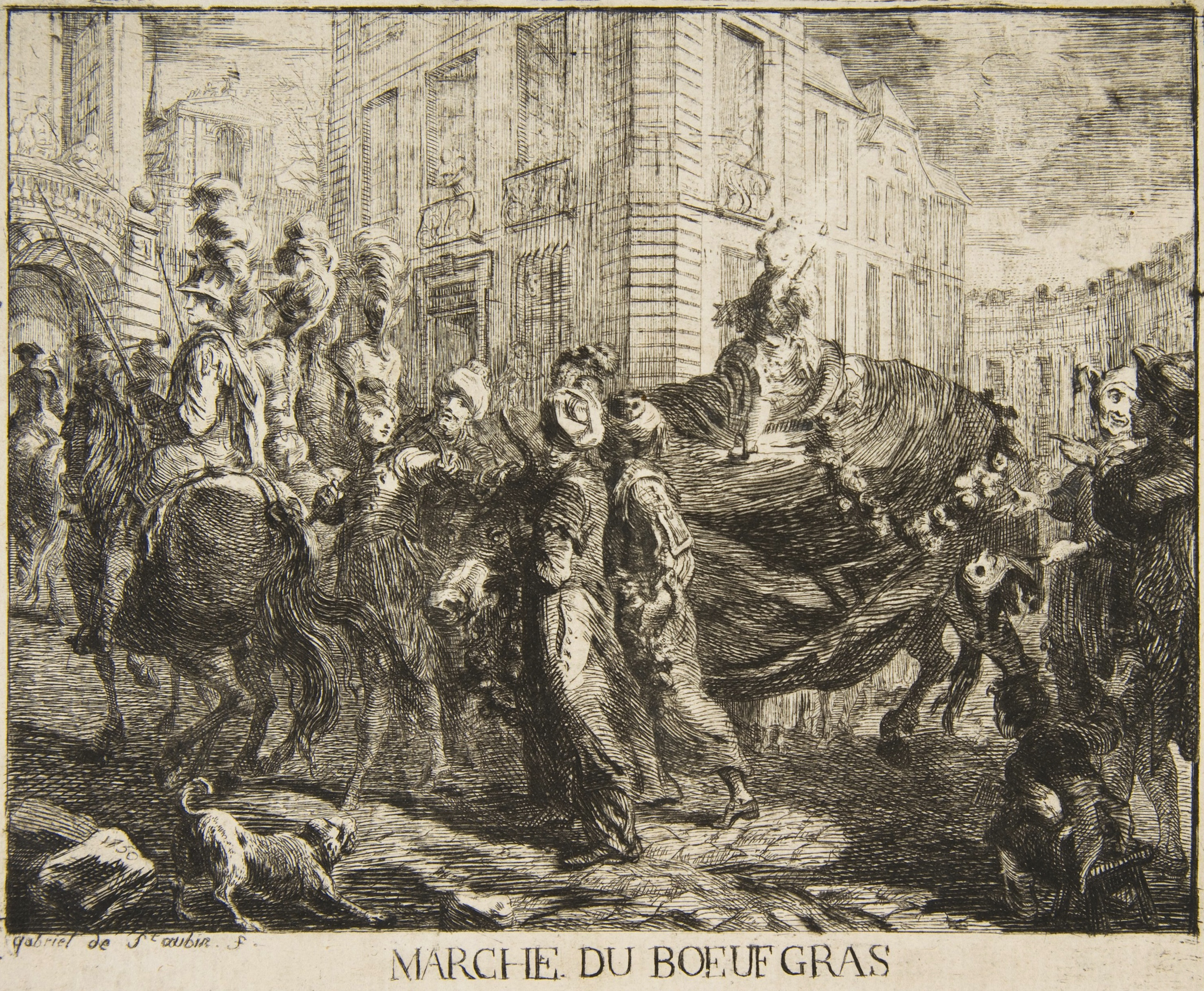 Marché du boeuf gras